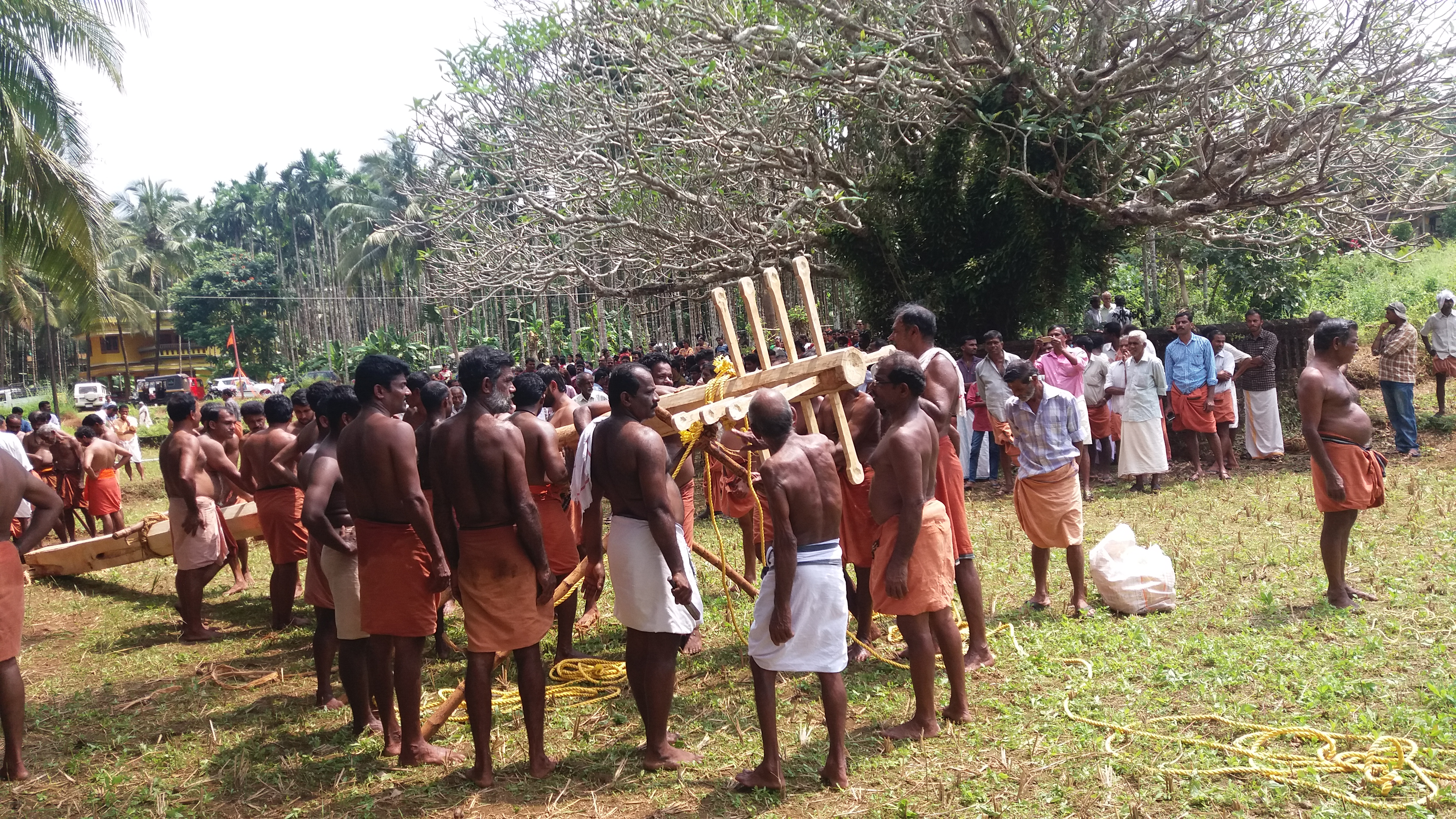 Poliyanthram_podavadukkam_AC_Narayanan